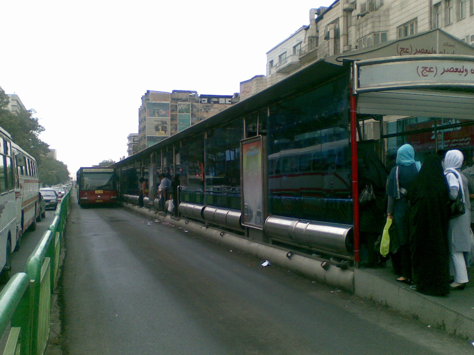 Vali-asr Station, Tehran's bus rapid transit.